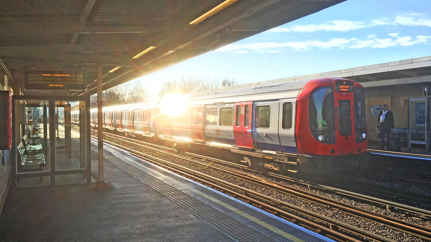 A London Underground S Stock tube train at Goldhawk Road Tube Station